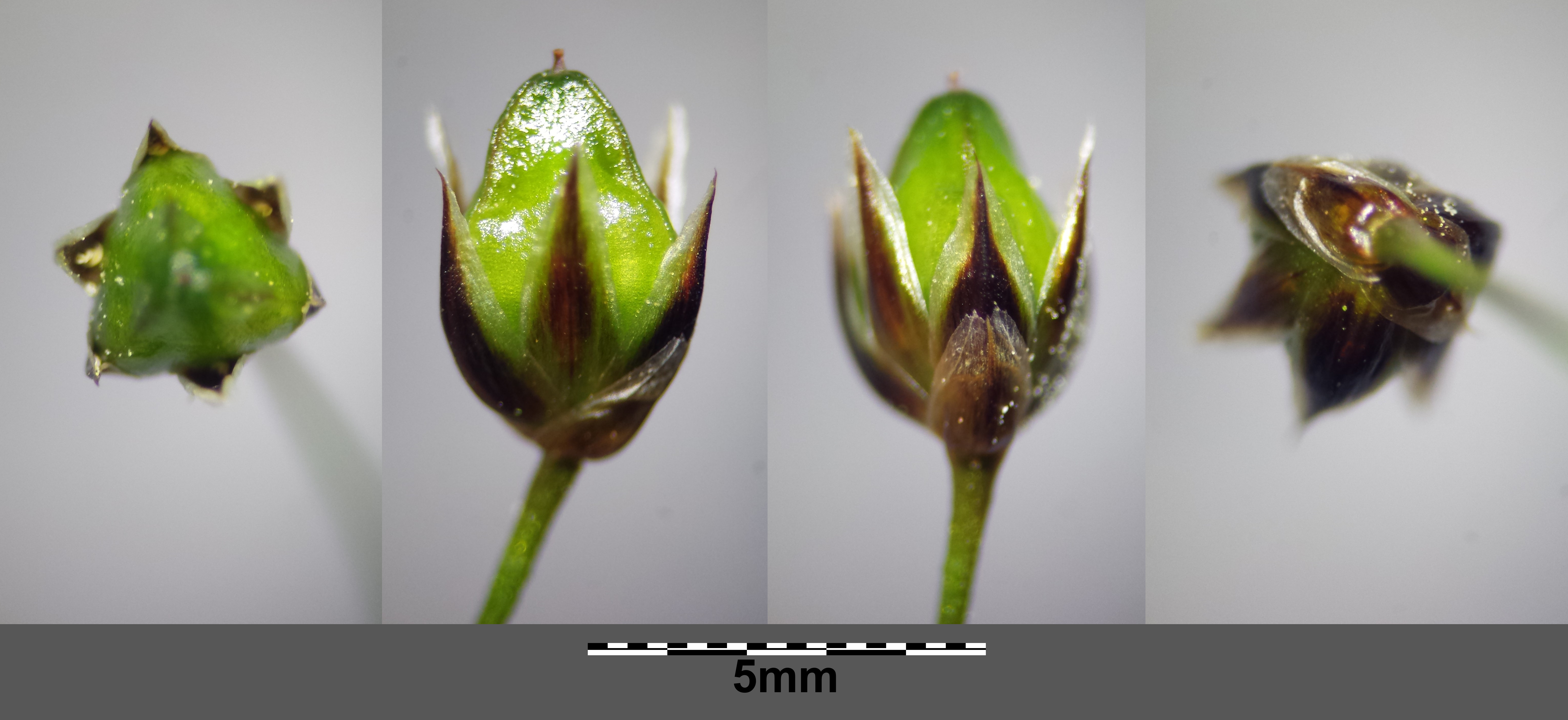 Fruit Taxonym: Luzula pilosa ss Fischer et al. EfÖLS 2008 ISBN 978-3-85474-187-9 Location: Rohrwald, district Korneuburg, Lower Austria - ca. 260 m a.s.l. Habitat: Carpinion betuli